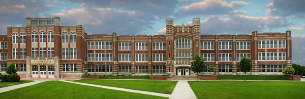 Austin High School - sliding panoramic image